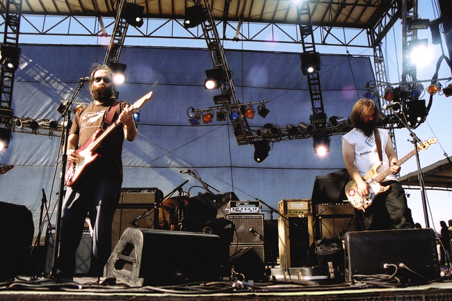 Built to Spill performing at the 2006 Vegoose Music Festival in Las Vegas, NV.